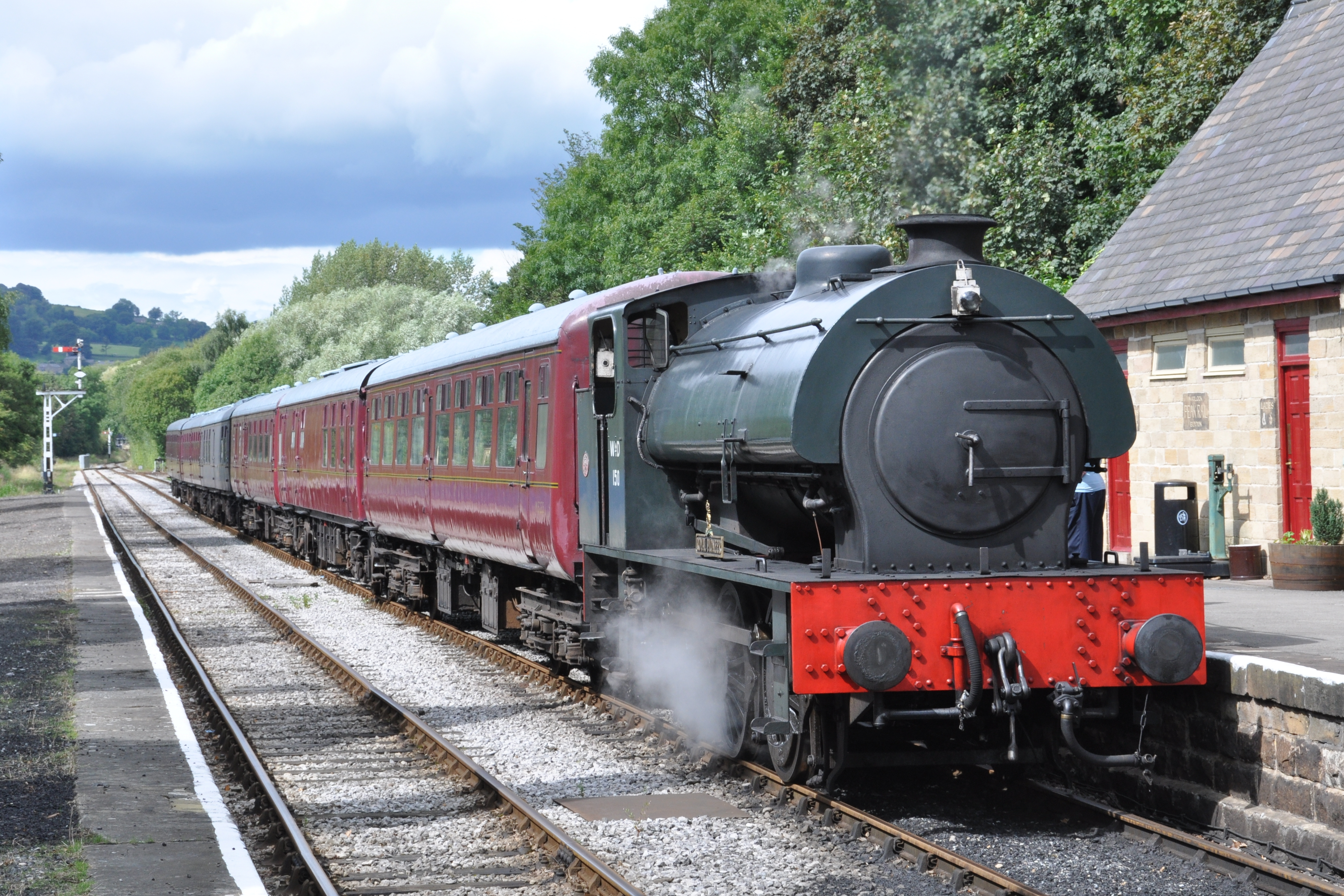 'Royal Pioneer' enters Darley Dale station